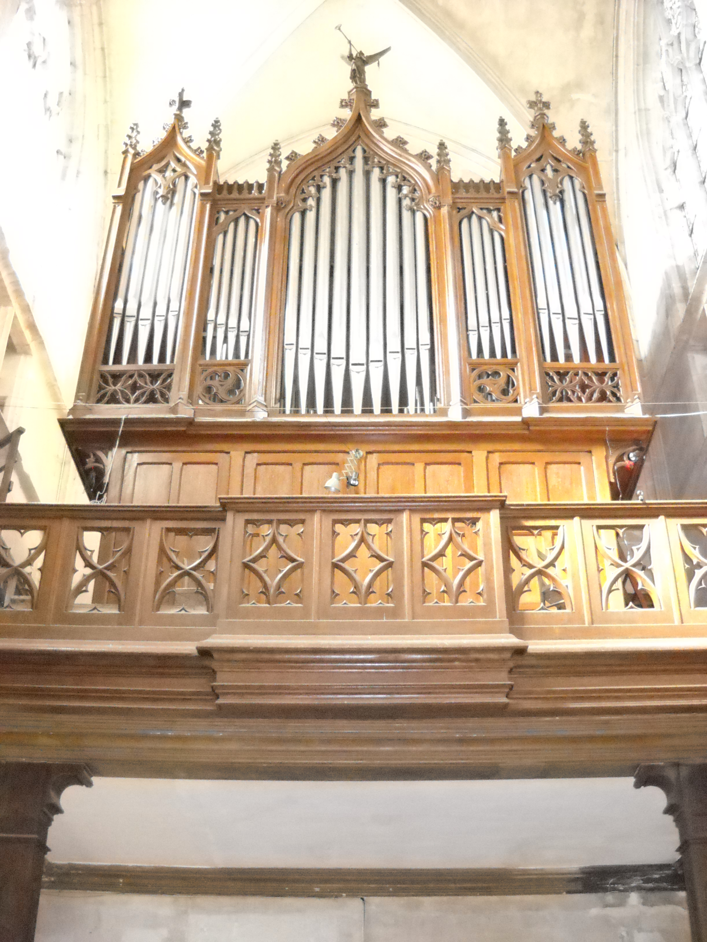 The organ of Notre-Dame's church, in Mamers, Sarthe, France.